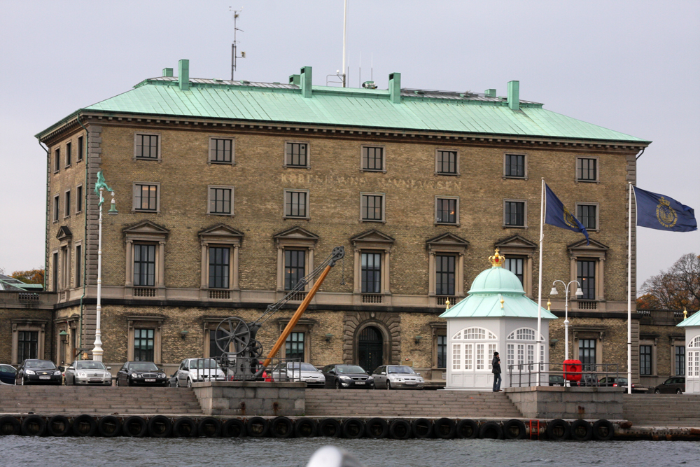 Nordre Toldob just south of Langeline on the Copenhagen waterfront